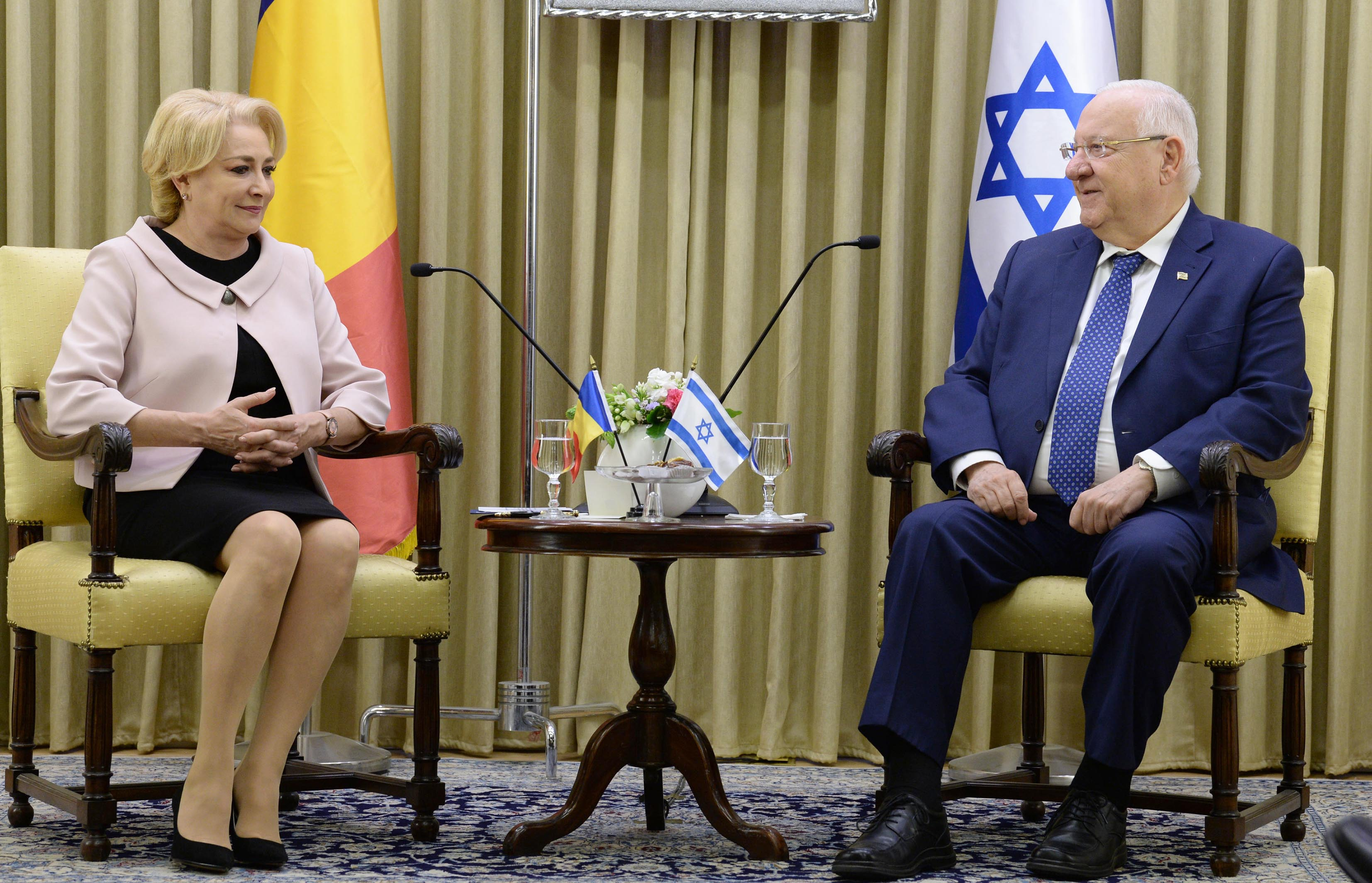 President of Israel, Reuven Rivlin, In a meeting with the head of the Romanian government, Viorica Dăncilă, as part of her official visit to Israel. Thursday, April 26, 2018. Photo Credit: Mark Neyman / GPO. Depicted people: Reuven Rivlin and Viorica Dăncilă